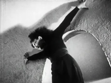 Still from the experimental 1943 short film Meshes of the Afternoon by Maya Deren.